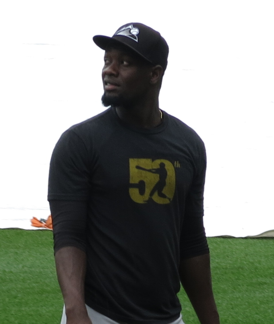 Gonzalez Germen of the Colorado Rockies, July 31, 2016.